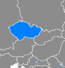 Czech language. Spoken language by majority Spoken language by minority